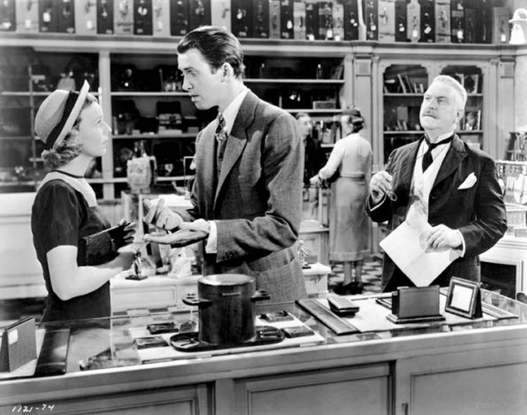 Promotional still from the 1940 film The Shop Around the Corner, published in National Board of Review Magazine